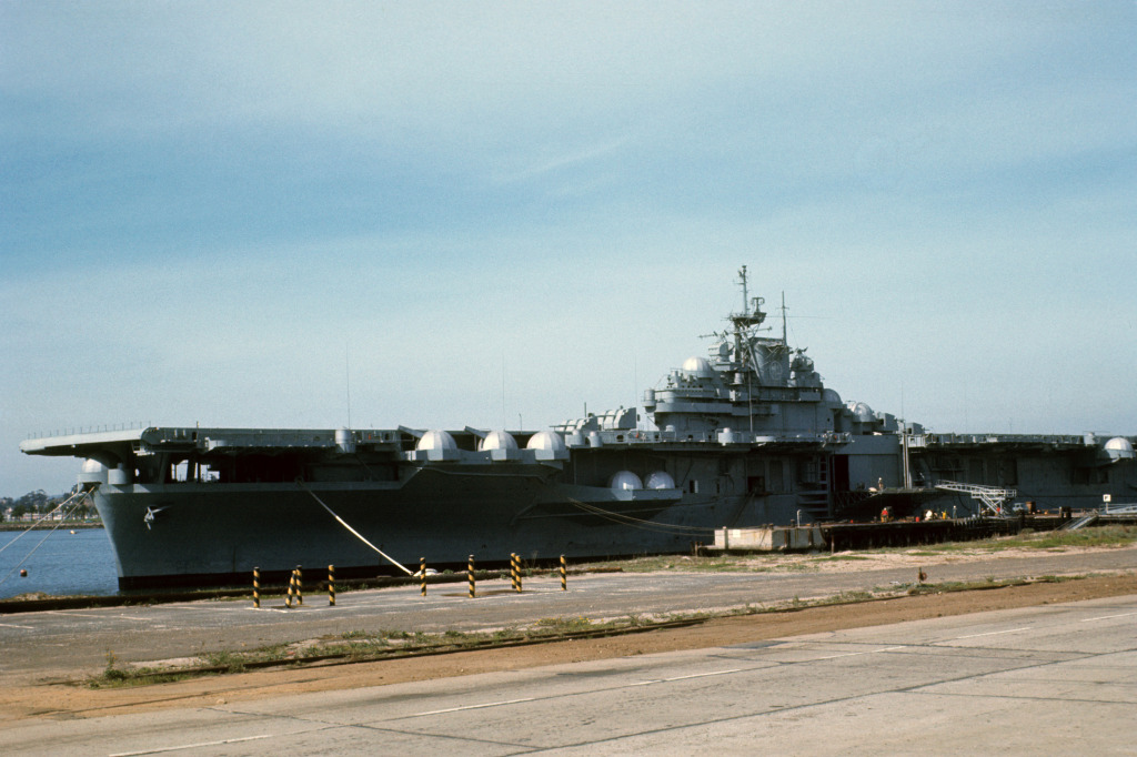 The retired U.S. Navy aircraft carrier USS Bunker Hill (CV-17) moored at North Island, San Diego (USA), around 1968. Bunker Hill was decommissioned into reserve on 9 January 1947. While in reserve, Bunker Hill was reclassified three times, becoming CVA-17 in October 1951, CVS-17 in August 1953, and AVT-9 in May 1959. She was stricken from the Naval Vessel Register in November 1966 and was used as a stationary electronics test platform at the Naval Air Station North Island during the 1960s and early 1970s. On 2 July 1973, the vessel was finally sold for scrap.